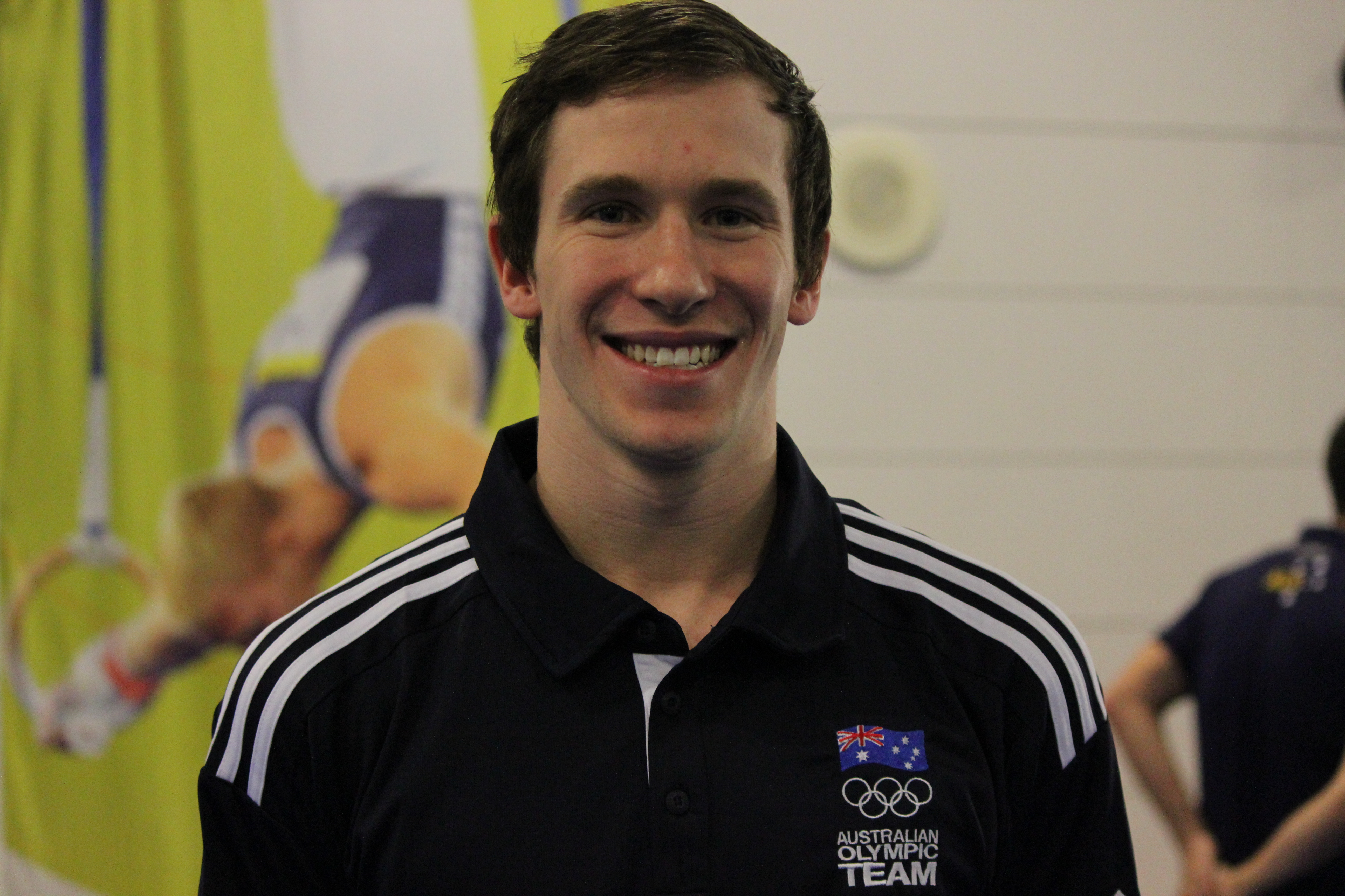 A head shot of an Australian gymnast or someone inside Gymnastics Australia. Blake Gaudry.